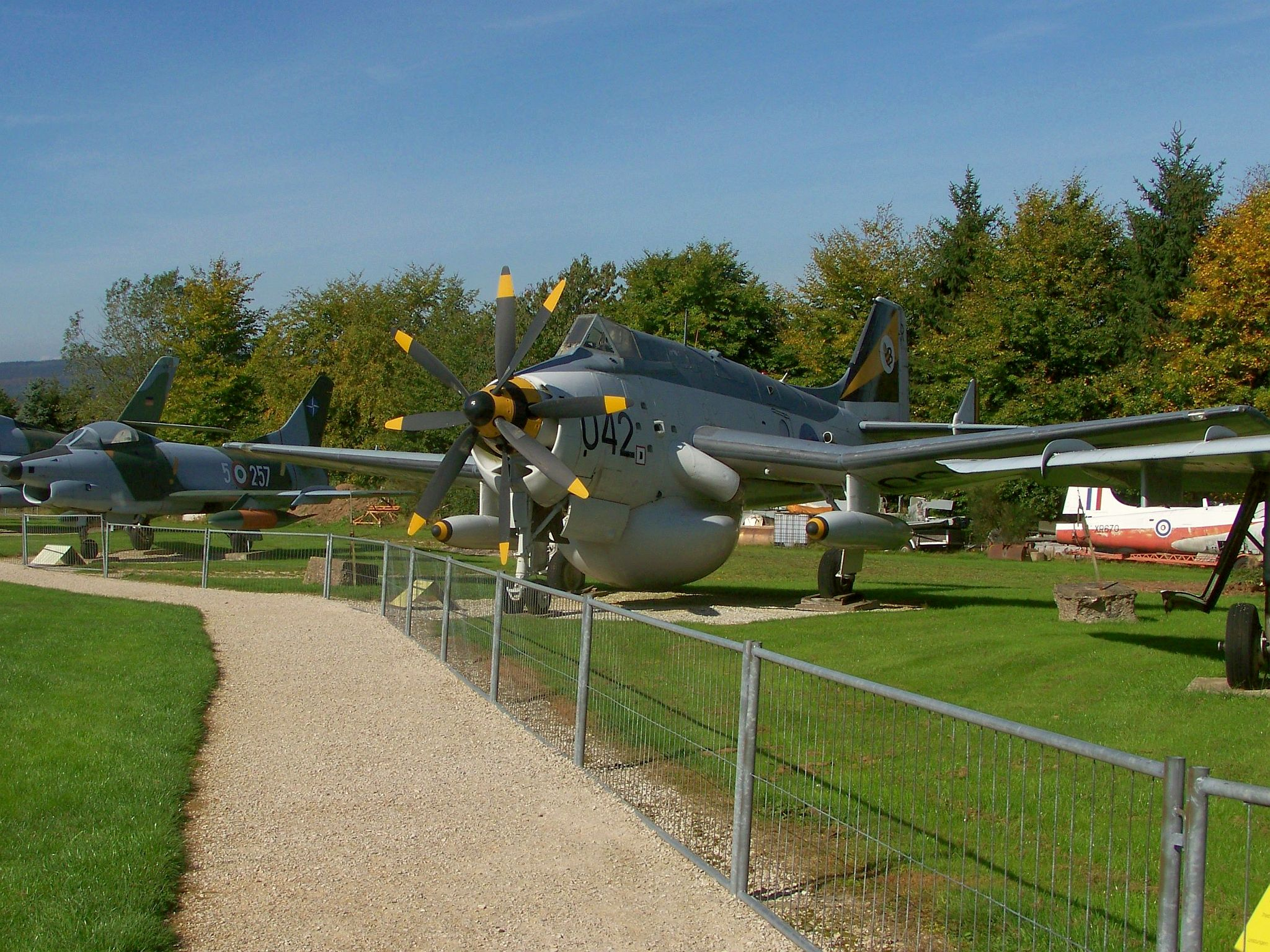 Fairey Gannet AEW.Mk3 at the Aircraft exhibition Hermeskeil, Rhineland-Palatinate, Germany